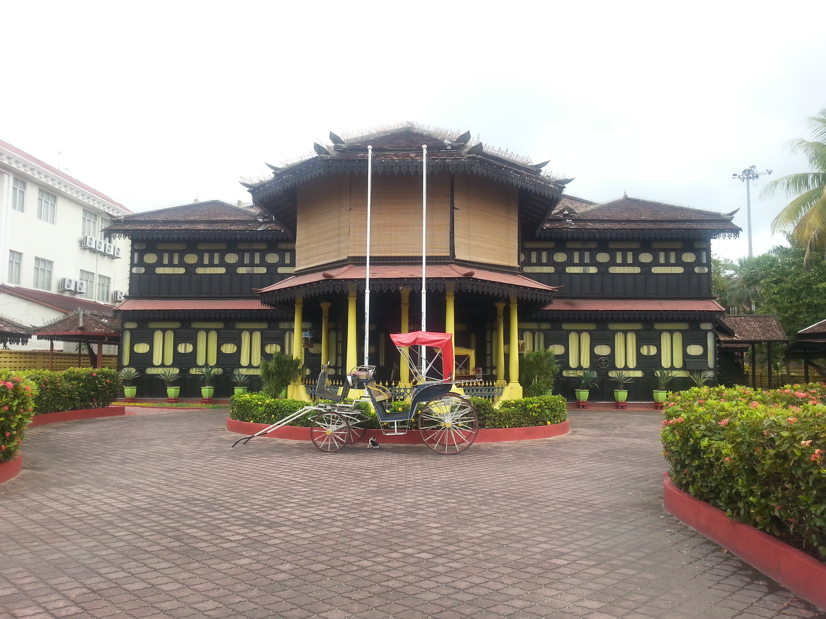 Muzium Adat Istiadat DiRaja Kelantan